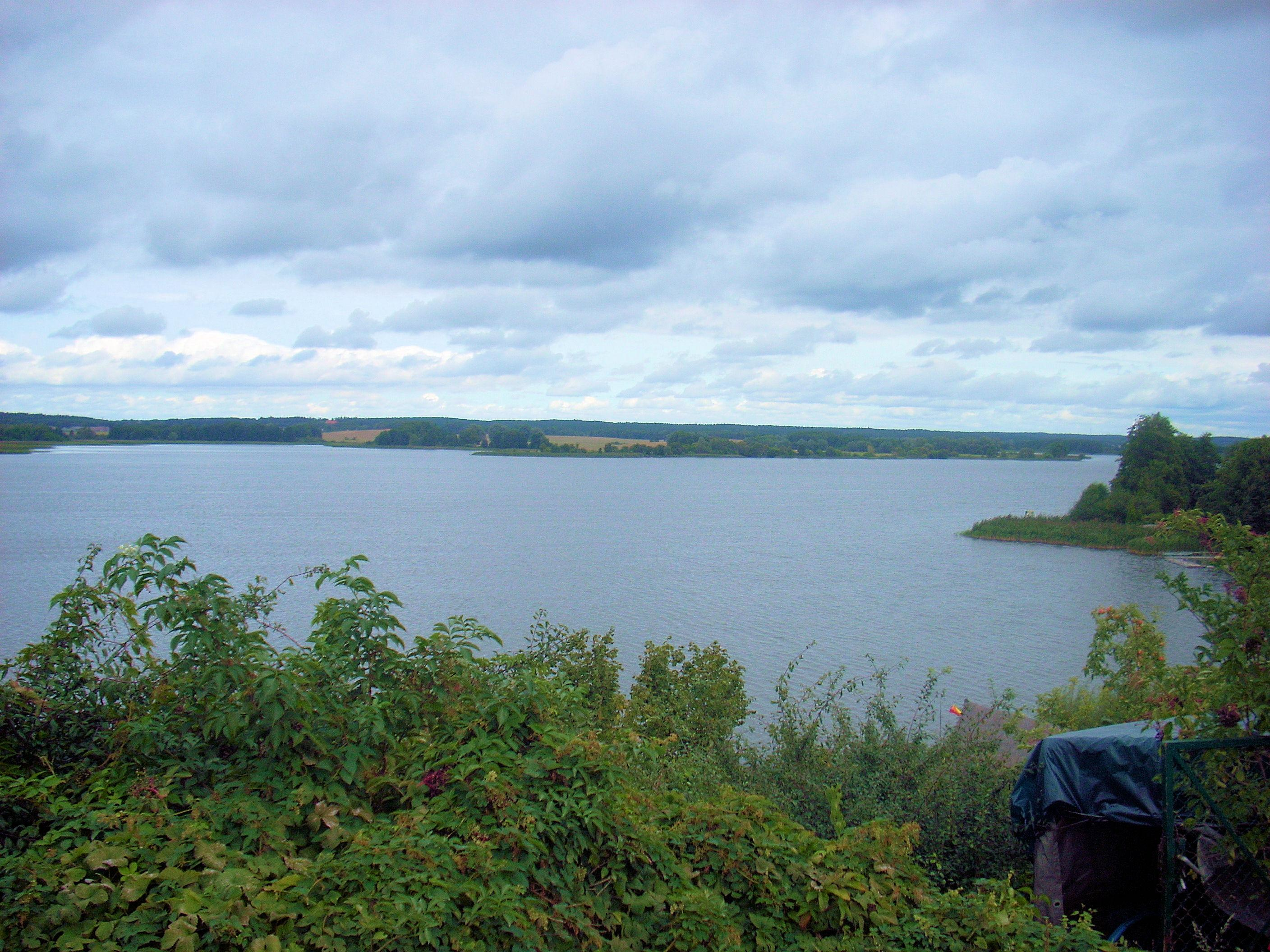 view over the lake Sternberger See